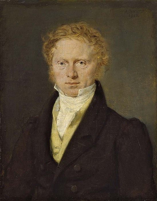 Hans Puggaard, Danish businessman